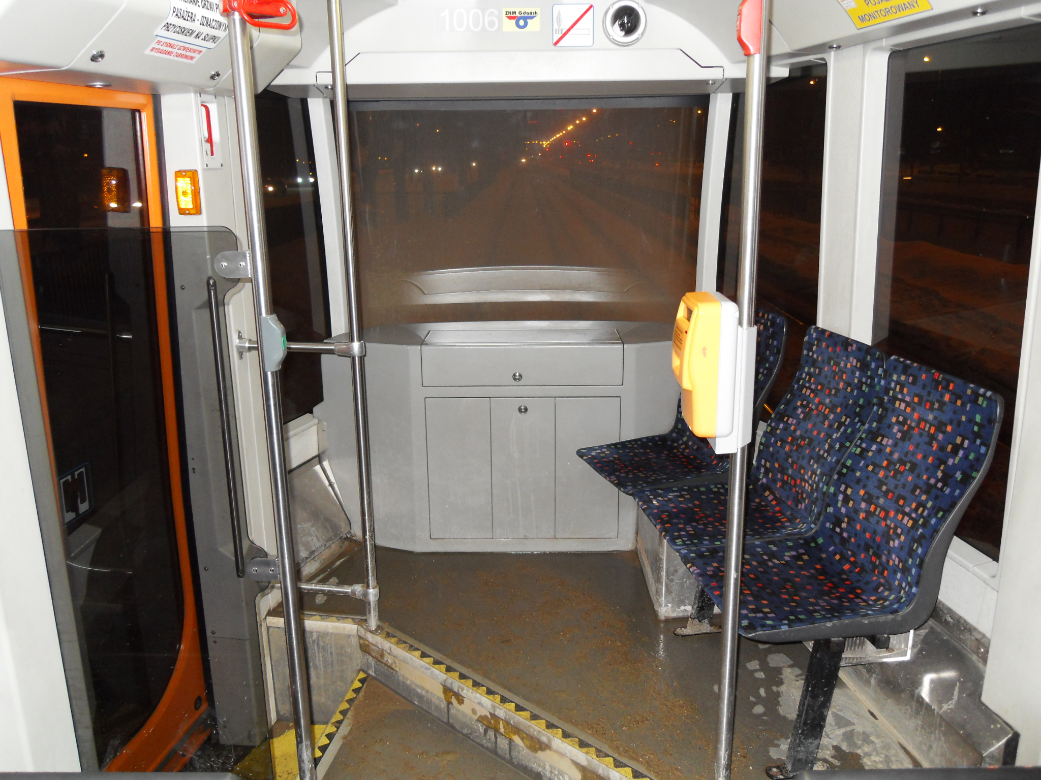 A Bombardier NGT6/2 tram in Gdańsk - the interior, back.